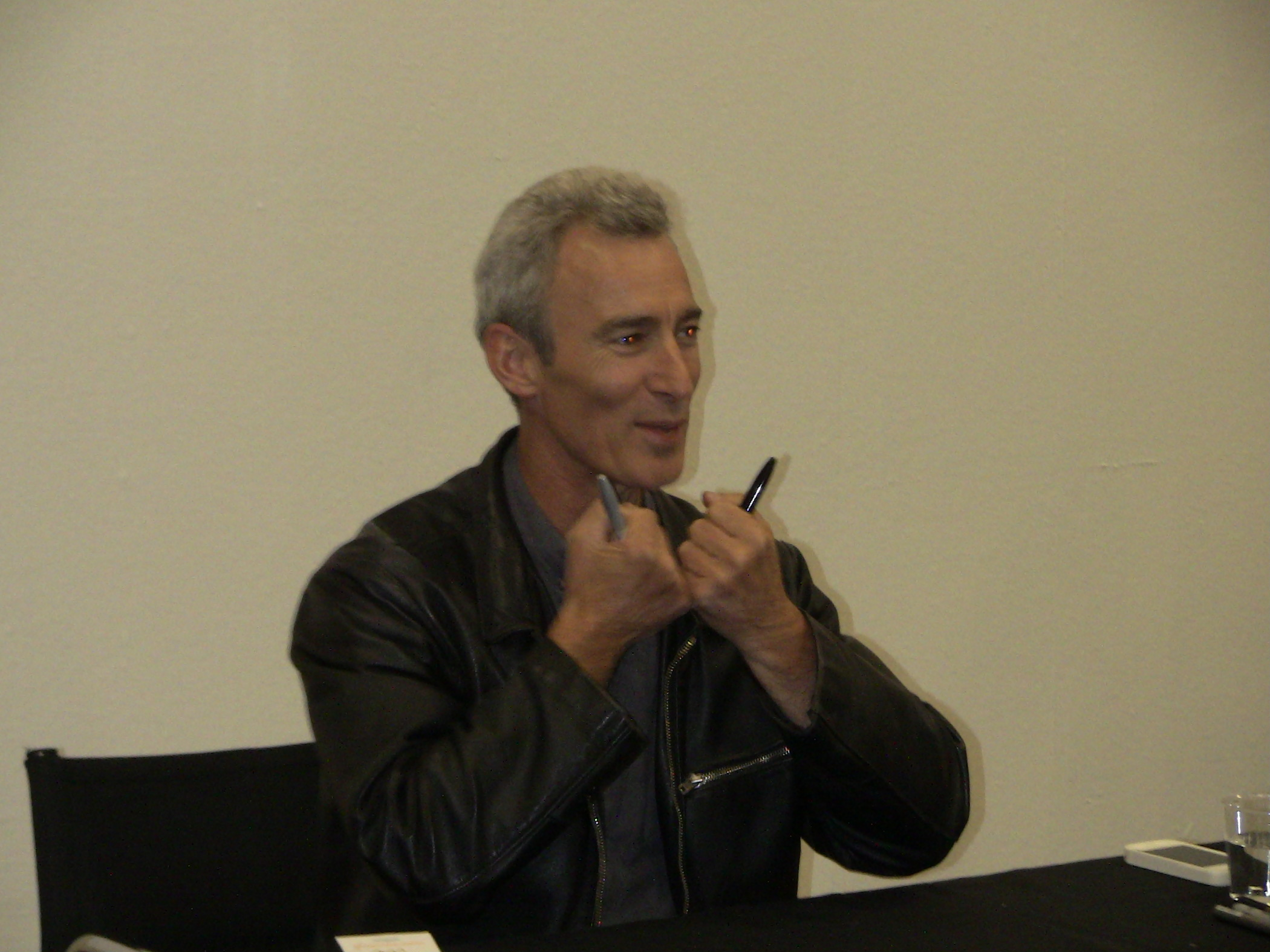 Jed Brophy at Stockholmsmässan (Stockholm International Fairs), Sweden 2014.